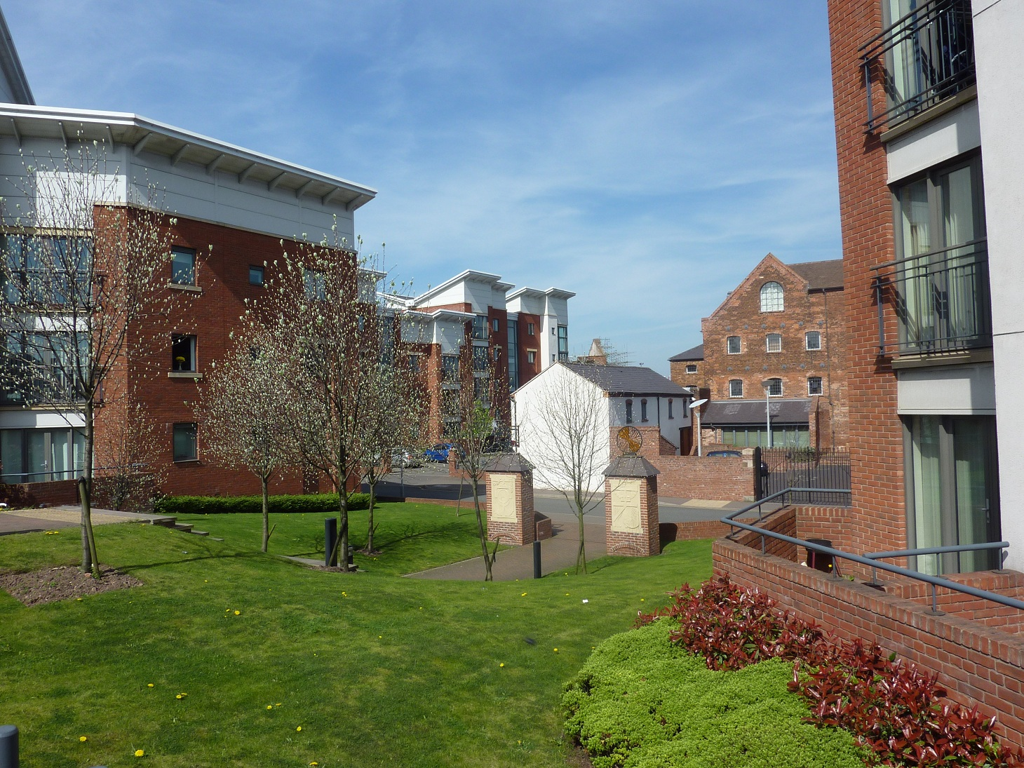 A view of modern Horseley Fields, looking toward Albion Street with a mixture of modern apartments and traditional older buildings in view.